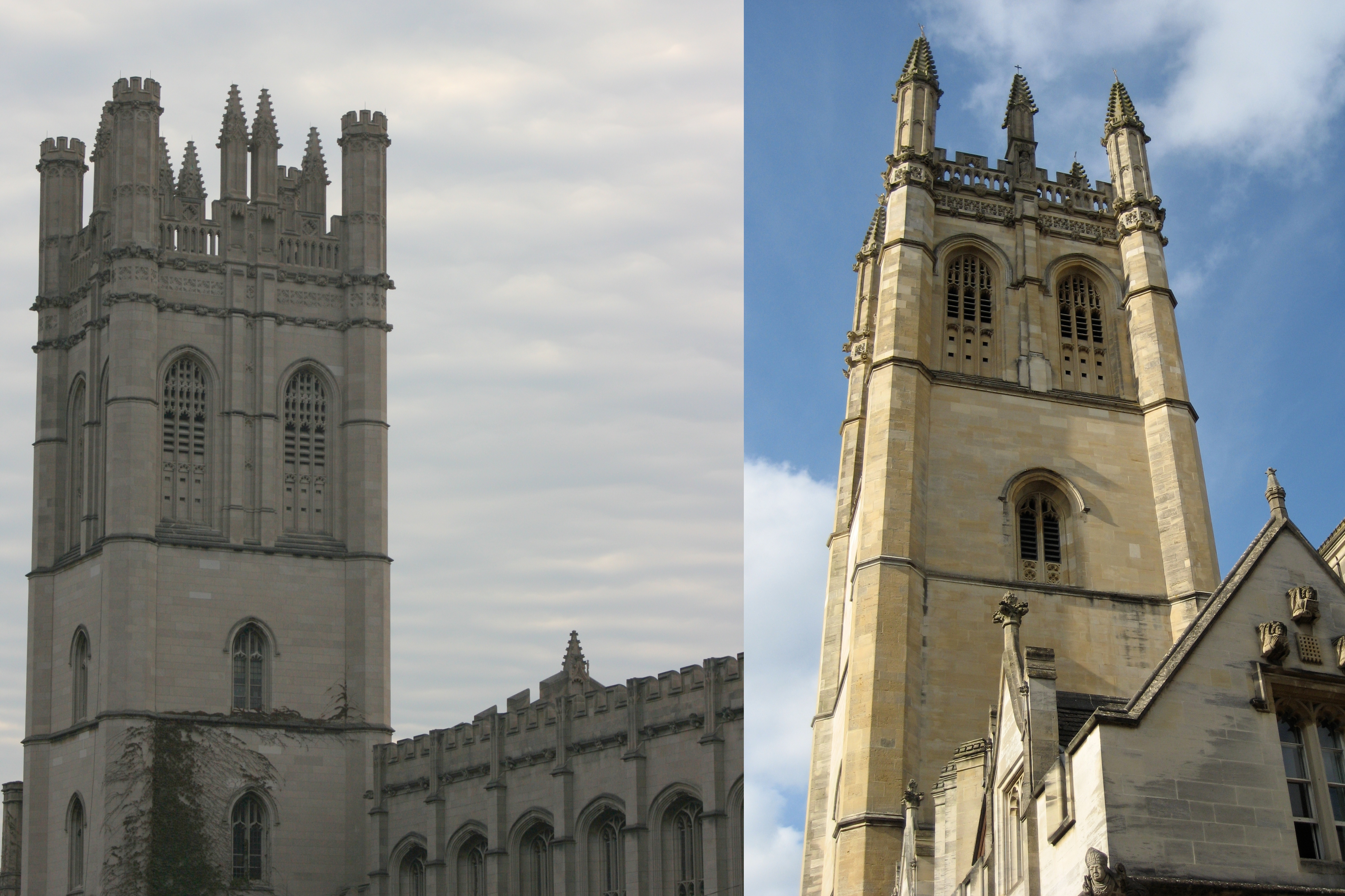 A comparison of Mitchell Tower (left) of Reynolds Club at the University of Chicago and Magdalen Tower (right) at the University of Oxford